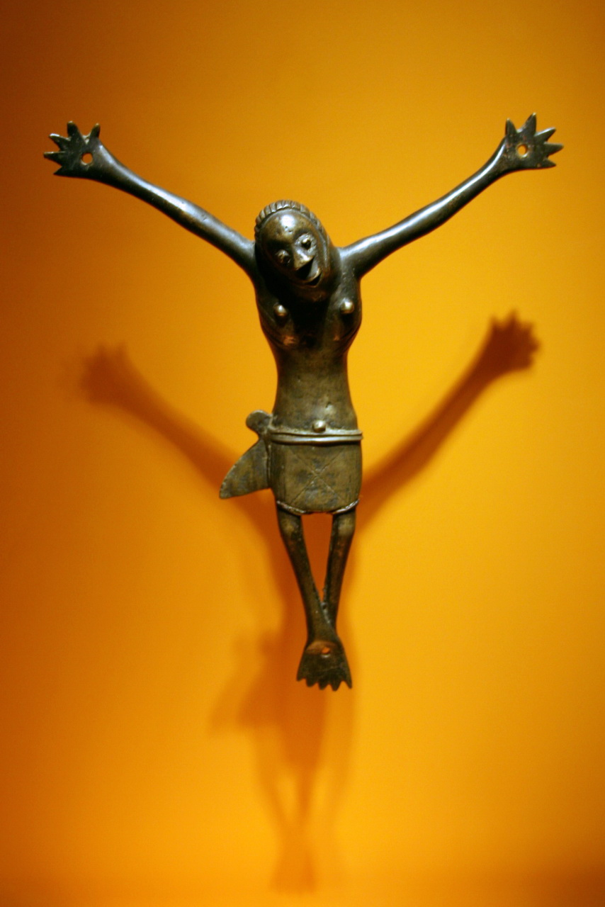 Crucifix, Kongo peoples, Democratic Republic of the Congo, 17th century, Copper alloy Fifteenth-century missionaries and Portuguese emissaries aware of the scepters and staffs used as emblems of power among Kongo rulers introduced crucifixes into this local custom. Kongo artists continued creating images of Christ, which tend to have African features, even after the missionaries departed in the mid-18th century. The cross in Kongo cosmology represents the meeting of this world and the spirit world, which may account for the continued use of the crucifix.